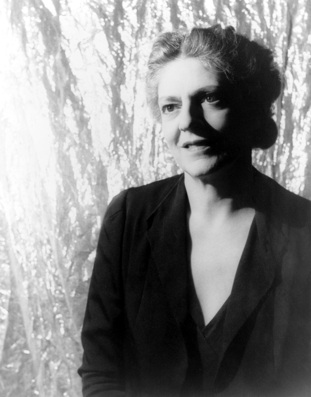 Portrait of Ethel Barrymore 1937 Dec. 12.